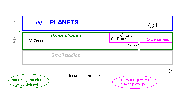 Definition of planet- voted